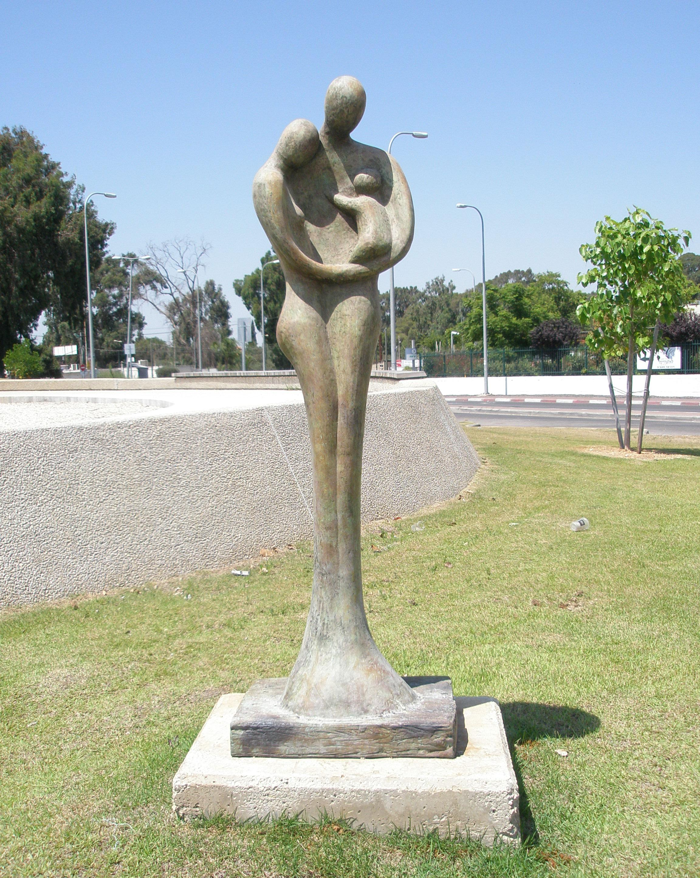 Family, sculpture by Ruth Bloch, Sheba Medical Center, Israel.